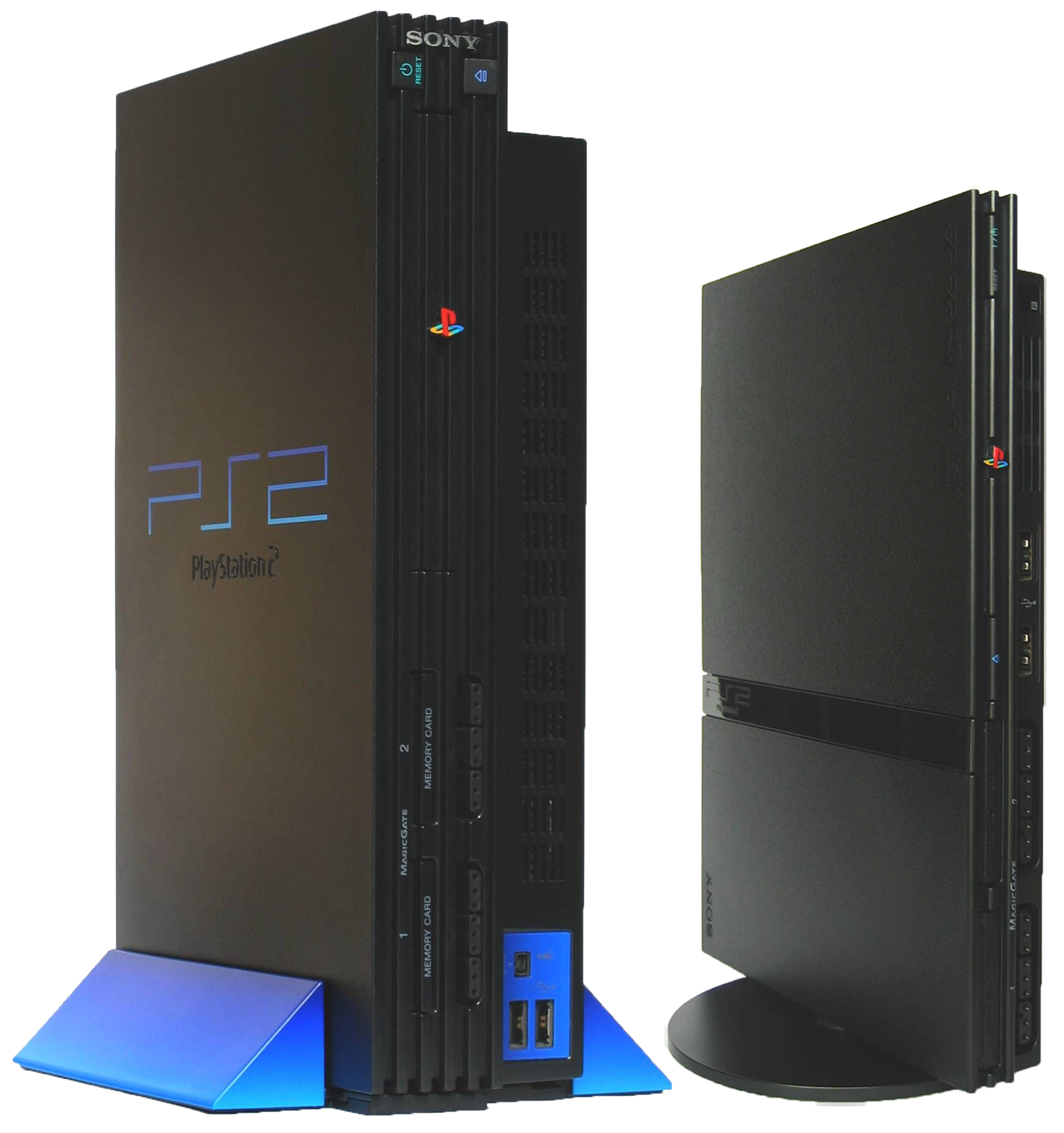 Comparison of size and design of the original and Slim models of PlayStation 2.